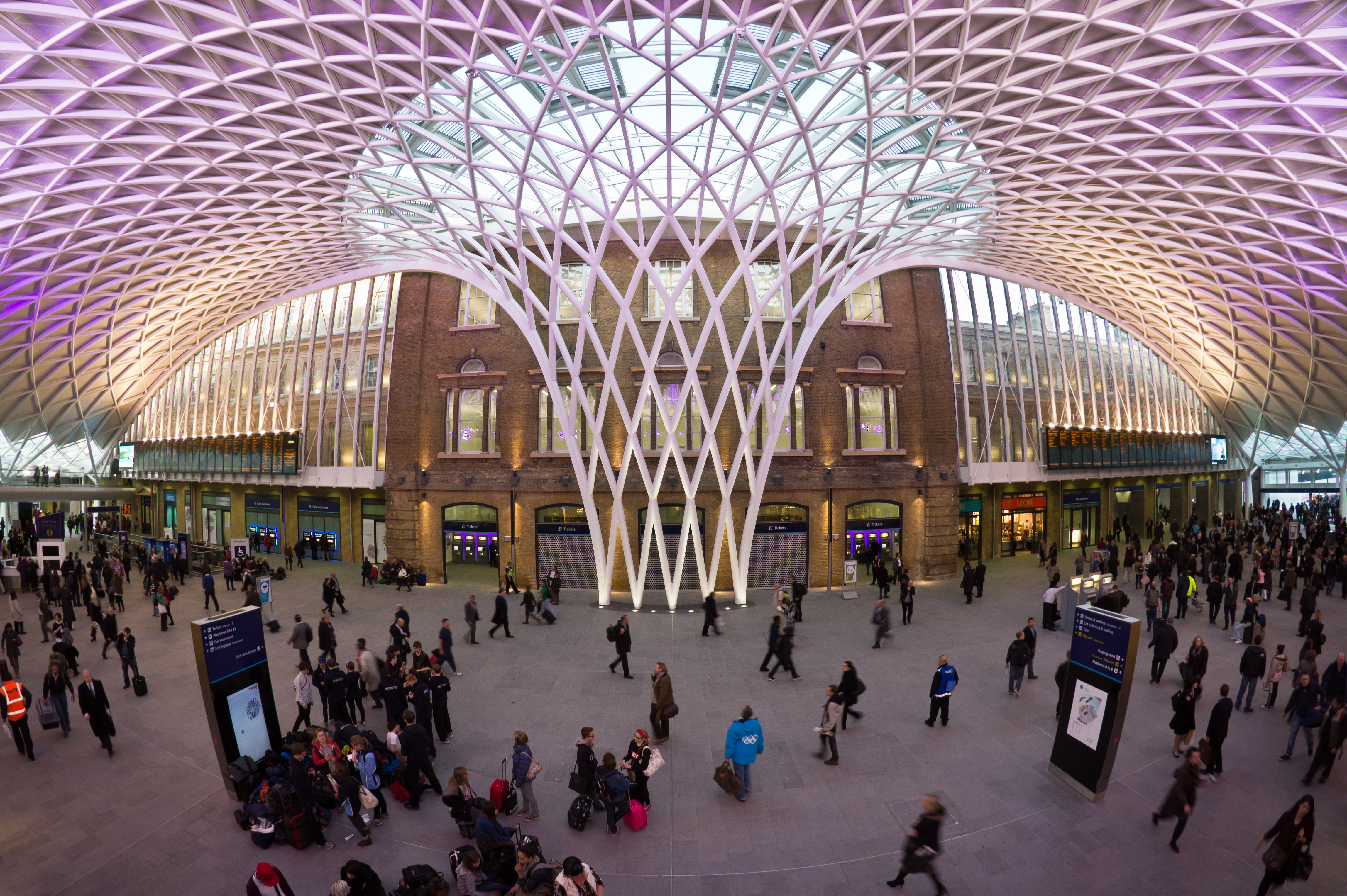 The western departures concourse of London King's Cross railway station, which opened on the 19th March 2012.Designed by John McAslan, it is intended to cater for much-increased passenger flows and provide greater integration between the intercity, suburban and underground sections of the station, as well as facilitating easier passenger exchange between the King's Cross and St Pancras complexes. Passengers departing on trains at this station use the new concourse; those arriving on trains must exit the station from old concourse on Euston road. The architect claims that the roof is the longest single-span station structure in Europe. The semi-circular building has a radius of 54 metres and over two thousand triangular roof panels, half of which are glass. The steel structure of the roof, engineered by Arup, has been described as being "like some kind of reverse waterfall, a white steel grid that swoops up from the ground and cascades over your head"Source: "All change at King's Cross" by Kieran Long at the London Evening Standard, 14 March 2012.The photo was taken from a central position on the mezzanine floor during the evening rush hour.This image was taken with a Samyang 8mm fisheye lens at f8, 1/15s, ISO 200.